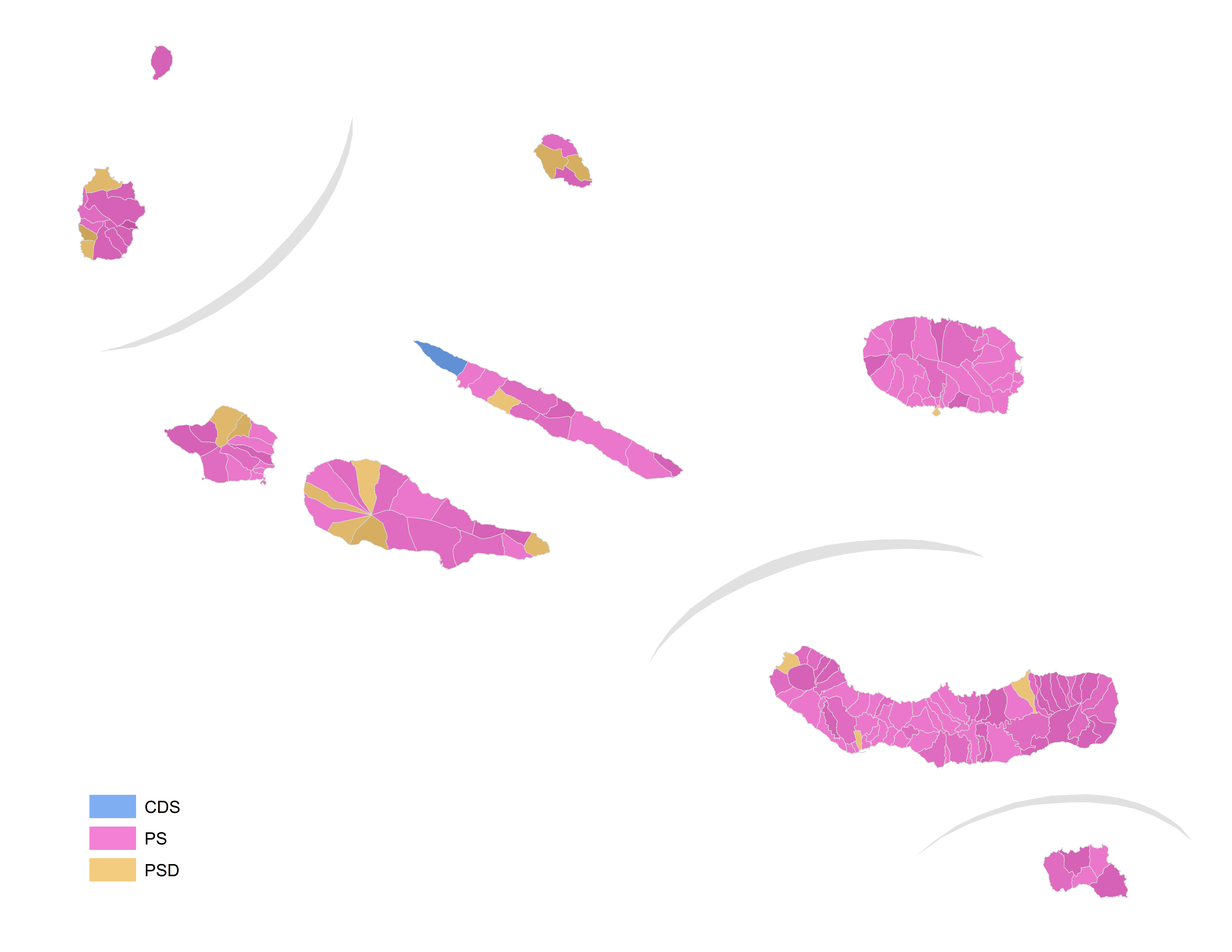 The results of the 2012 Azorean Regional Elections by civil parish, with gradation indicating degree of voting preference for political parties (darker shades indicating stronger preference by registered voters).